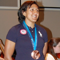 Elana Meyers standing proudly in front of the Christian Community Orchestra at their 2010 Springsational Concert as they play "The Olympics: A Centennial Celebration" arranged by John Moss